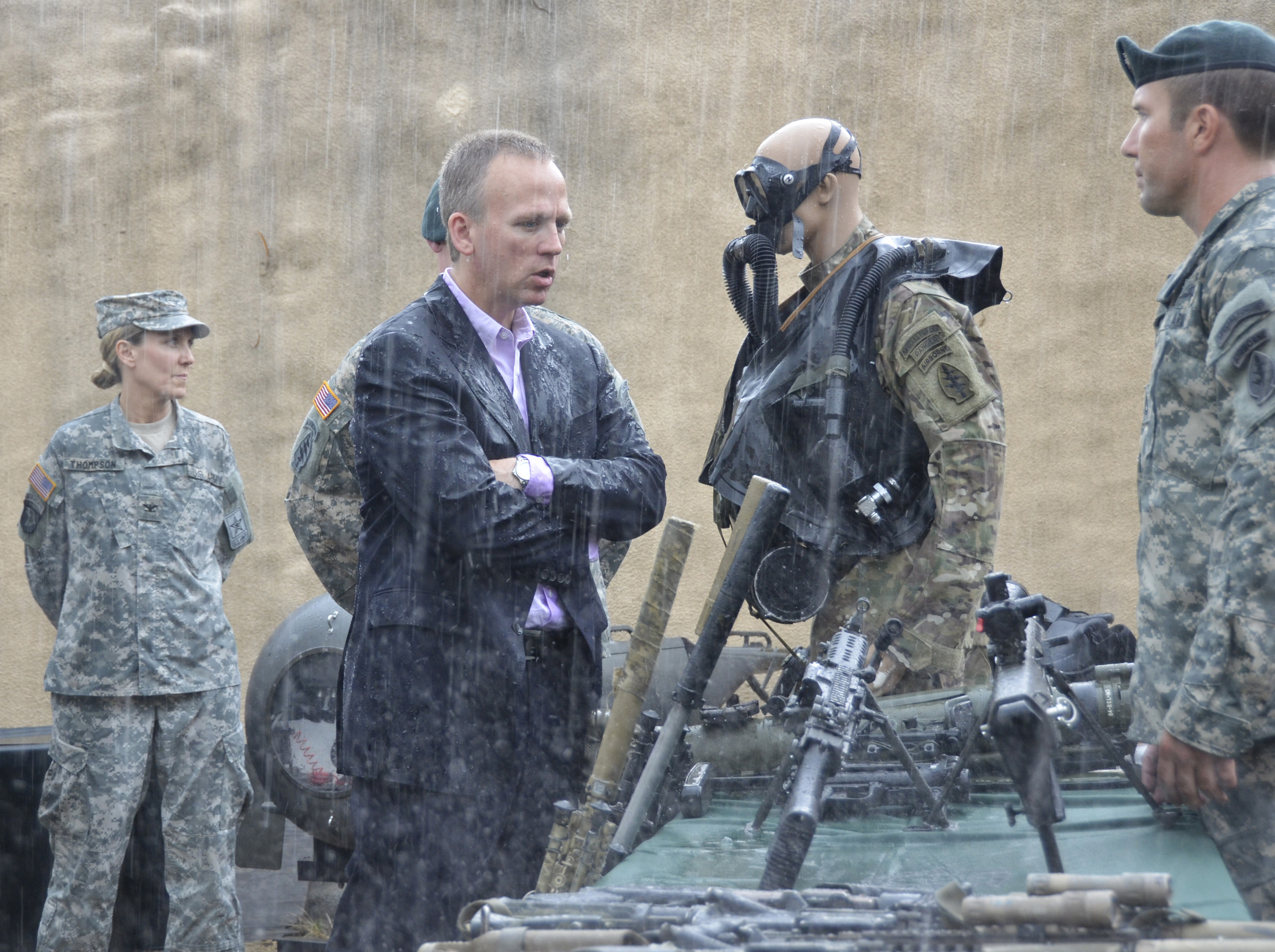 FORT BRAGG, N.C. -- The Under Secretary of the Army, Hon. Brad Carson, discusses weapons systems with a Special Forces Soldier during a walkthrough on Range 37, Fort Bragg. Hon. Carson met with USASOC Soldiers to gain firsthand knowledge of Army Special Operations Forces and their capabilities. (Photo Credit: Sgt. Daniel A. Carter, USASOC Public Affairs)